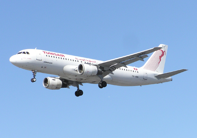 Tunisair Airbus A320-200 (TS-IMB) landing at London (Heathrow) Airport in August 2004. Taken by Adrian Pingstone and released to the public domain.